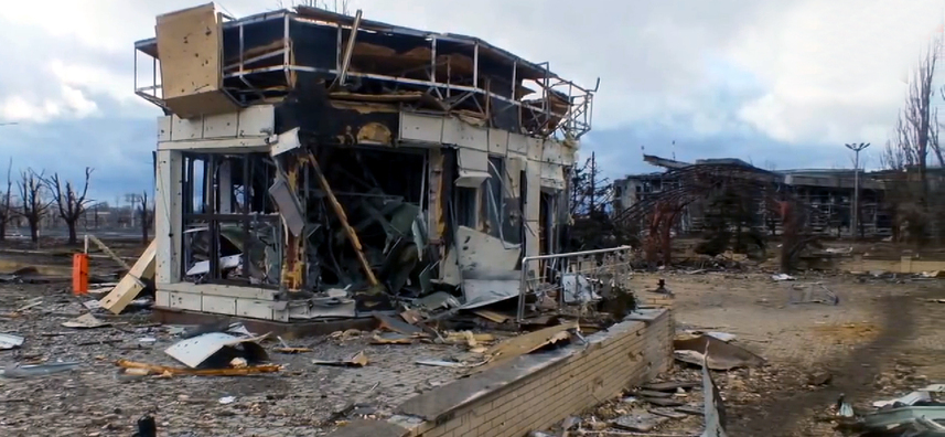 Ruins of Donetsk Sergey Prokofiev International Airport, December 24, 2014.